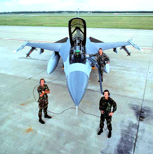 Lt. Col. Gary North the 33rd FS commander; SSgt. Roy Murray, crew chief; SA Steven Ely, assistant crew chief, pose with the F-16D #90-0778 which Lt. Col. North was flying when he shot down an Iraqi MiG-25 over the "No Fly Zone" on December 27th, 1992 during Operation Desert Storm. Lt. Col. North is the only U.S. F-16 pilot to have shot down a MiG. Mounted on the wing tips are the AIM-120A advanced medium-range air-to-air missiles. Location of this photo is at Shaw AFB on April 1st, 1993. [USAF photo by A1C Robert Trubia]